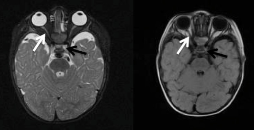 Combination of optic nerve hypoplasia (white arrow) and chiasmal aplasia (black arrow)